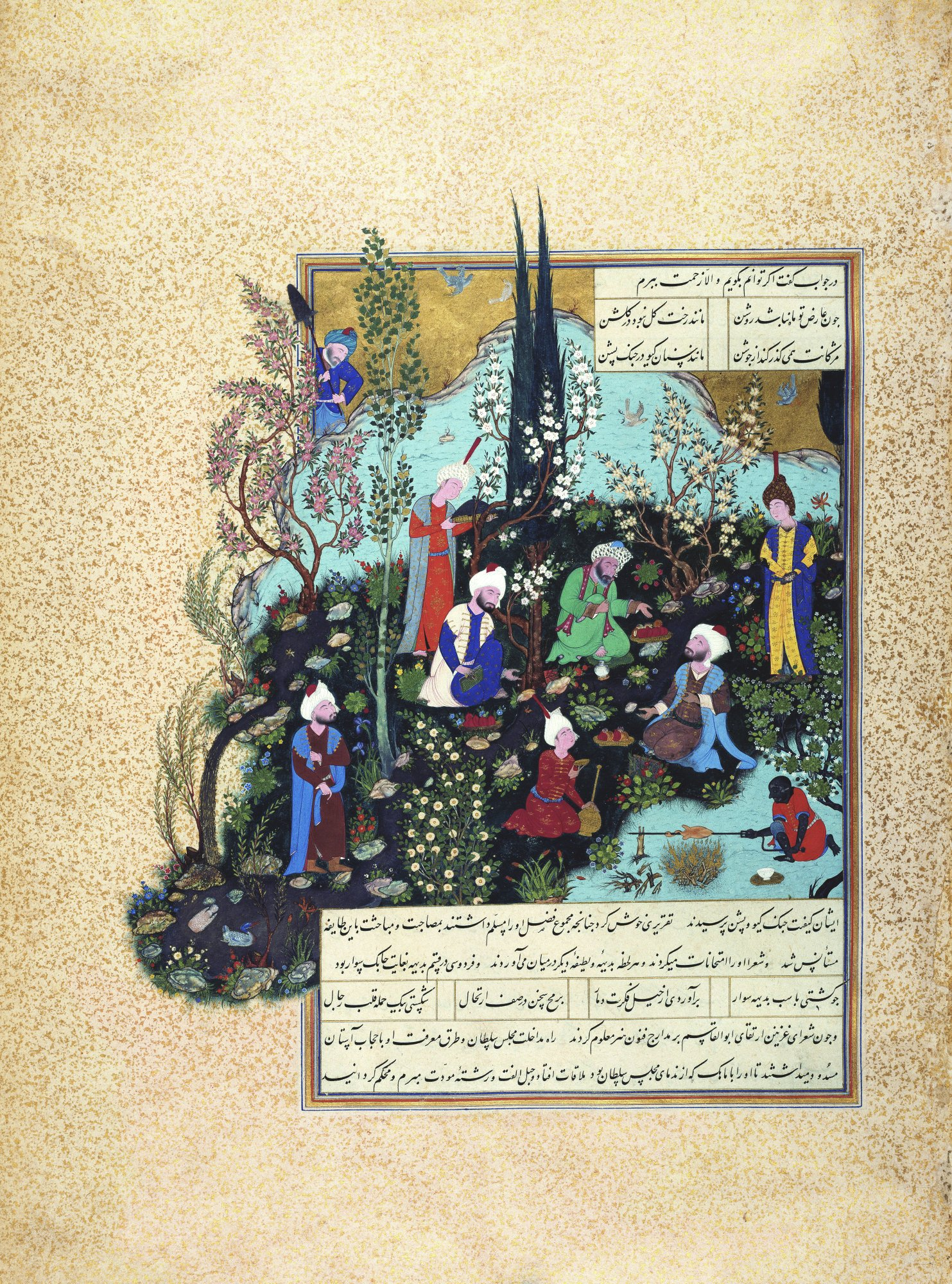 Folio from the Shahnama of Shah Tahmasp.